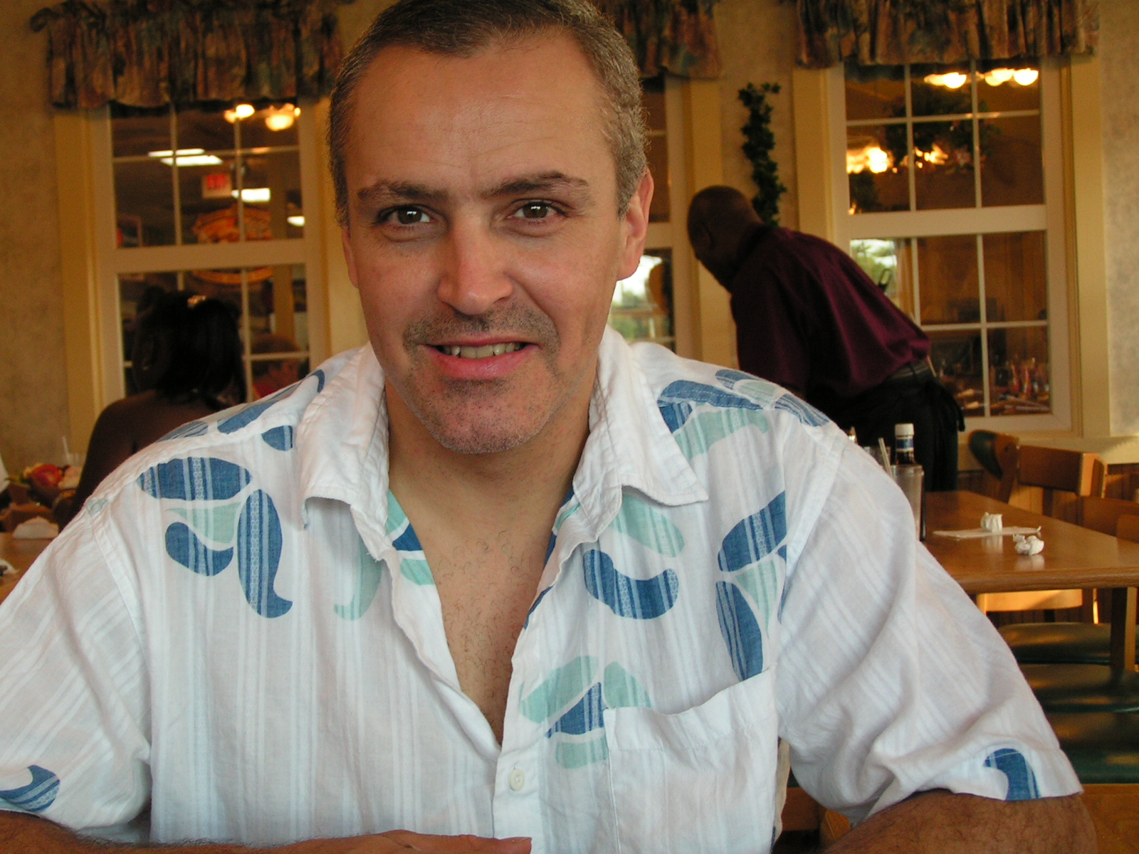 Ray LeBlanc 2005